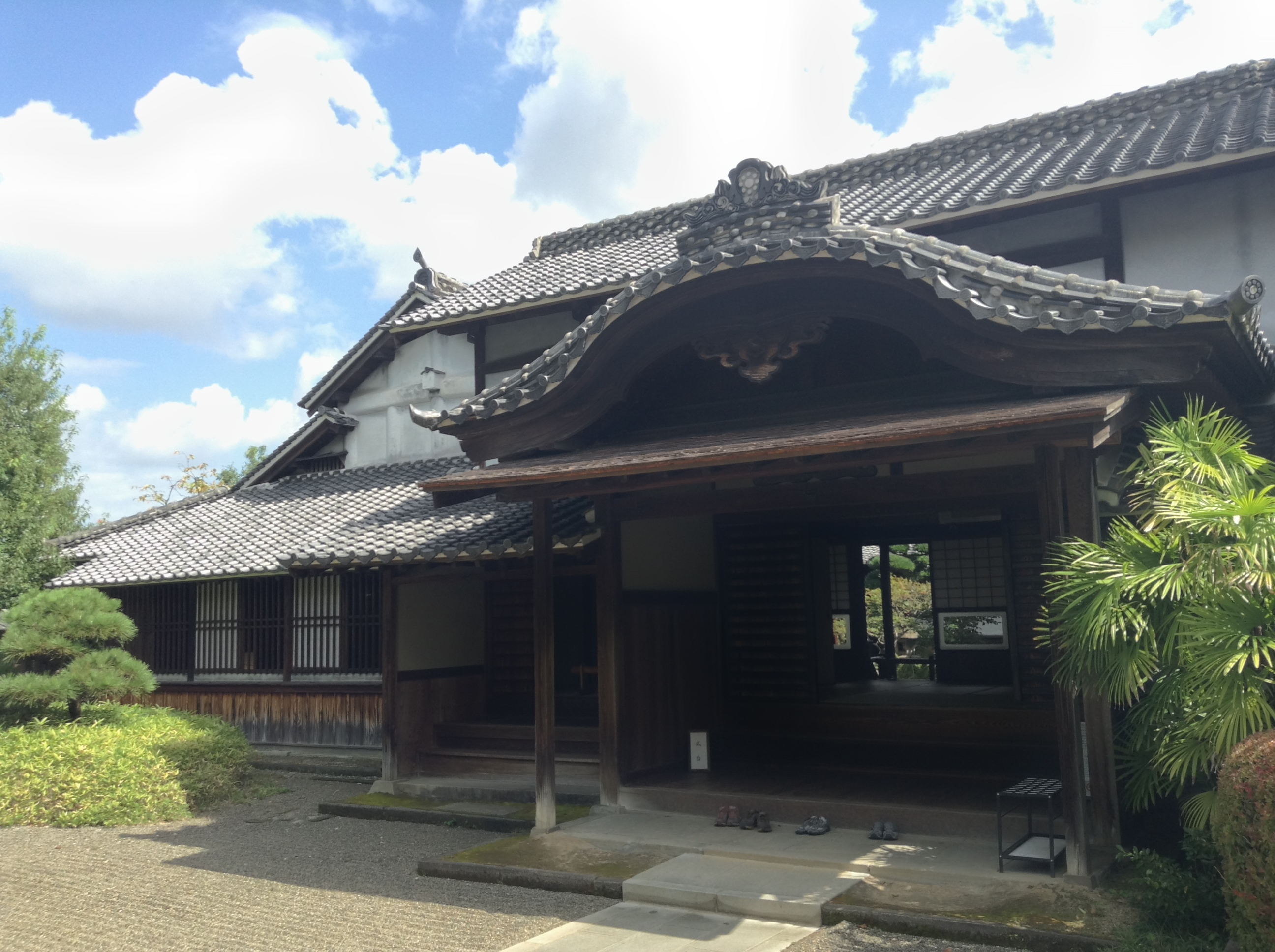 Kyu-Hosogawa-Gyoubu-Tei, Genkan